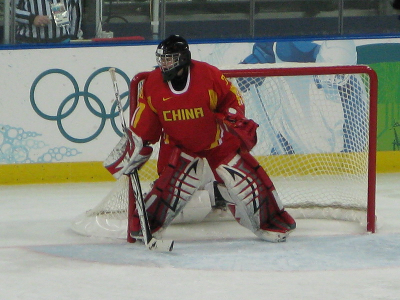 China goaltender Shi Yao watches the action against Russia during the 2010 Winter Olympics